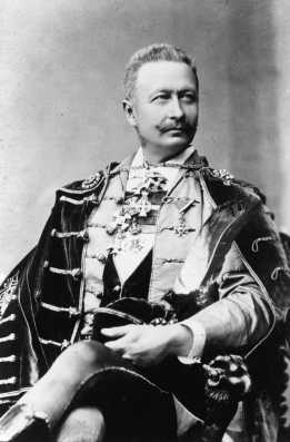 Count Géza Zichy de Zics et Vásonkő (1849–1924), Hungarian musician and composer.